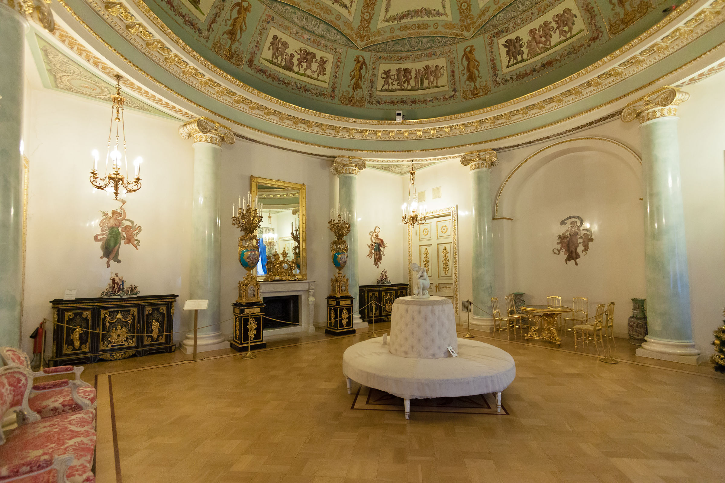 Interior of the Large Rotunda